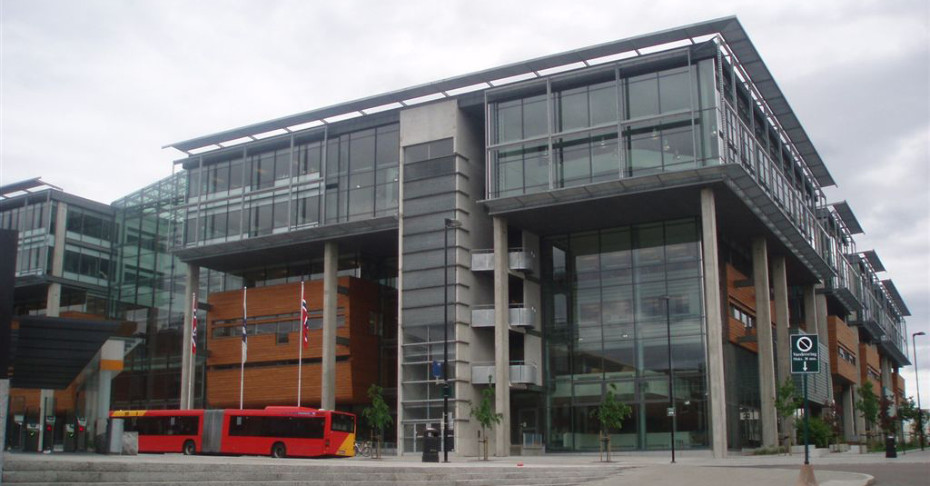 BI Norwegian School of Management